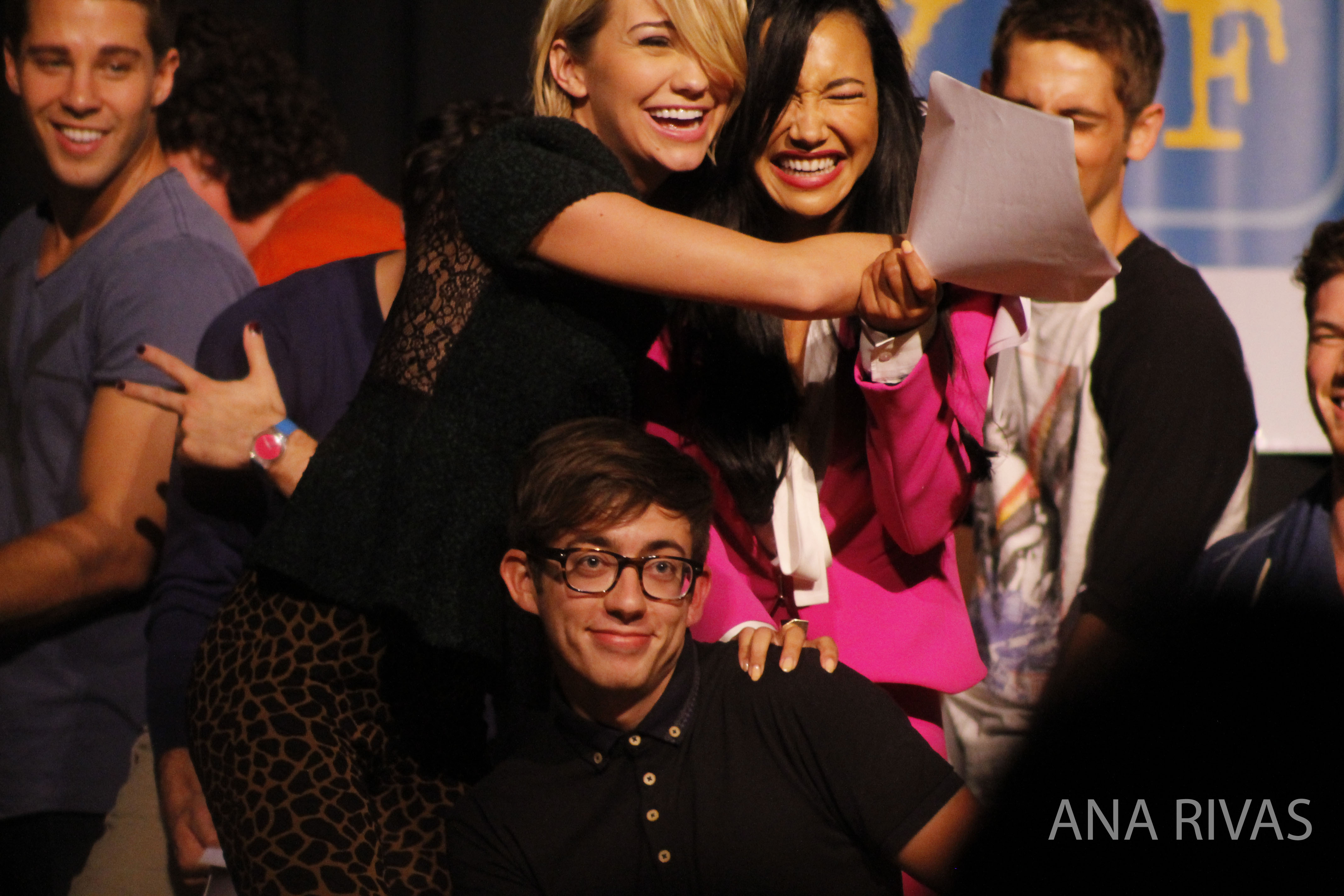 The Biggest Show October 21st, 2012 Culver City, CA